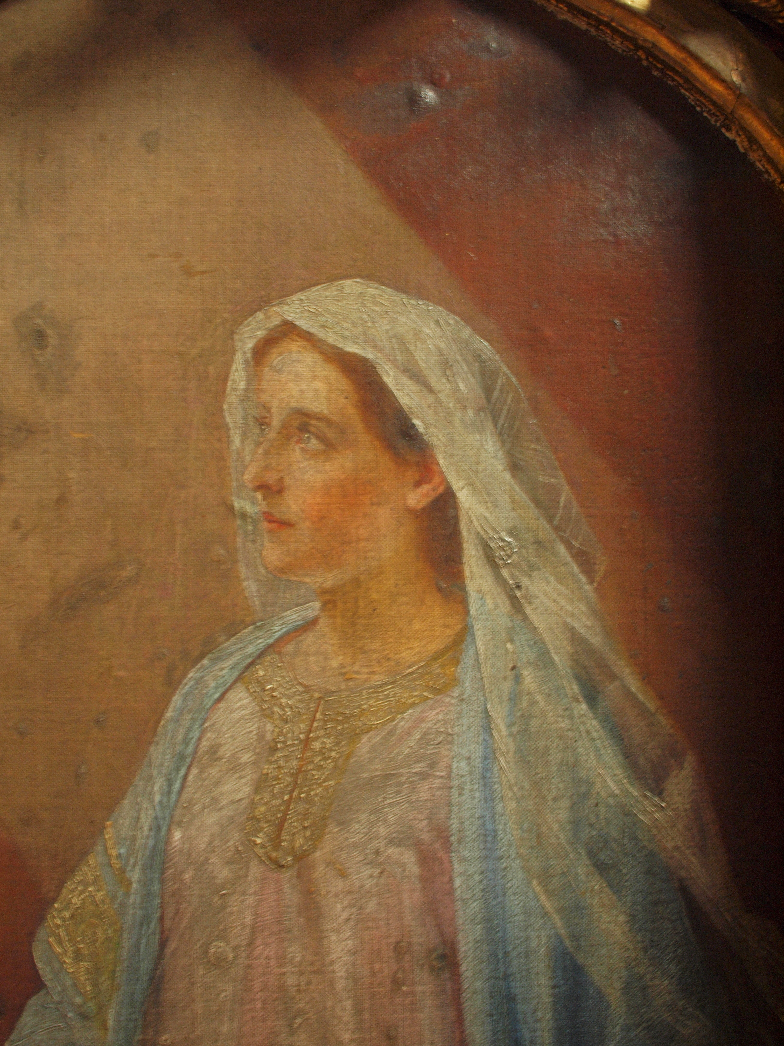 Mariae Verkündung Uros Predic Ruma Ikonostase